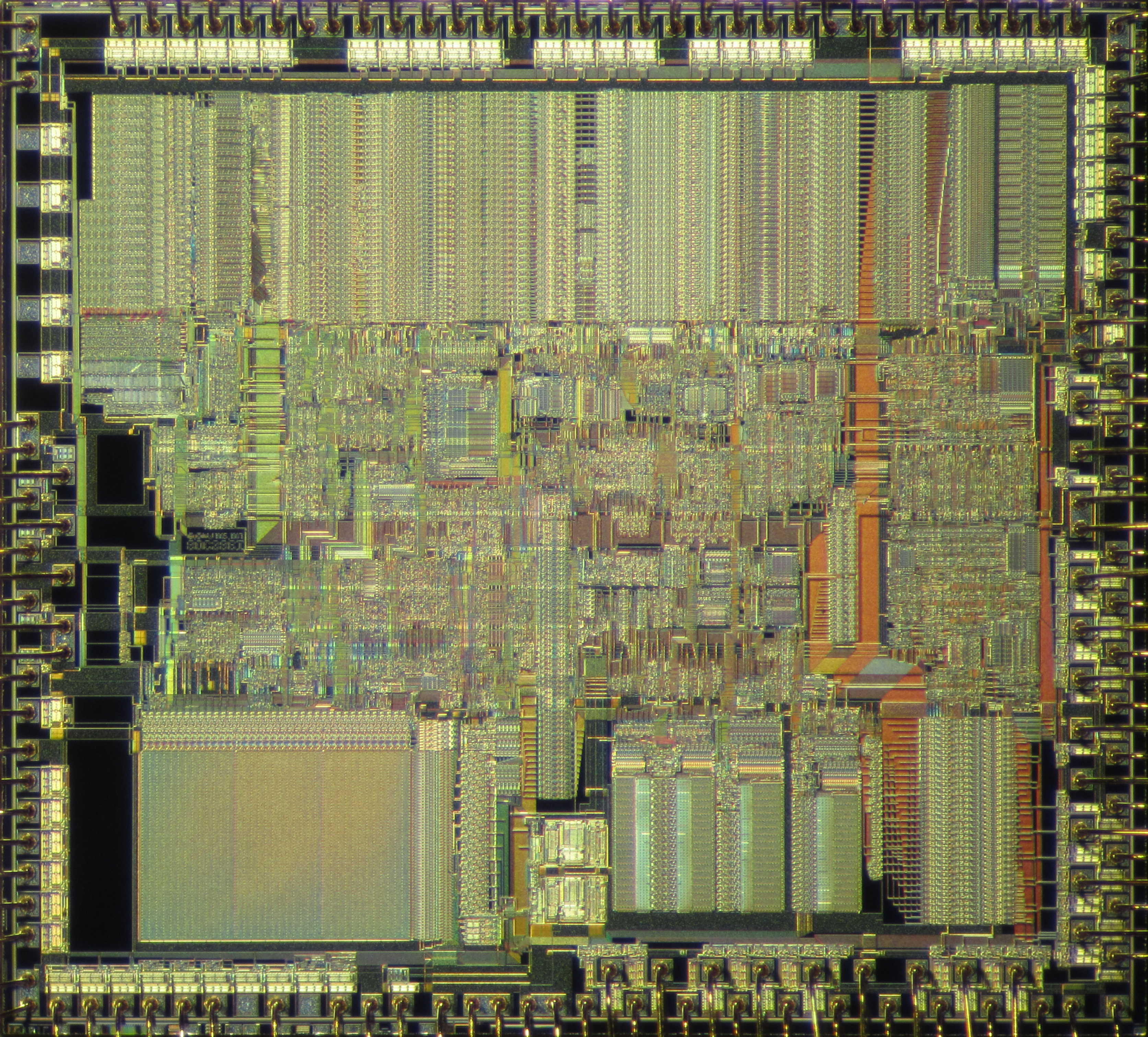 Die shot of Intel 80386 DX-33 IV microprocessor (SX544).